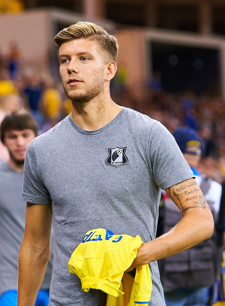 Anton Salétros